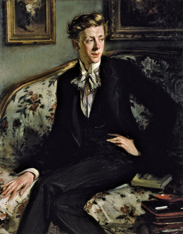 Portrait of Dorian Gray (Coleridge Kennard) by Jacques-Émile Blanche, 1904